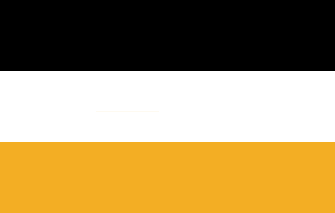 Flag of student fraternity Arminia